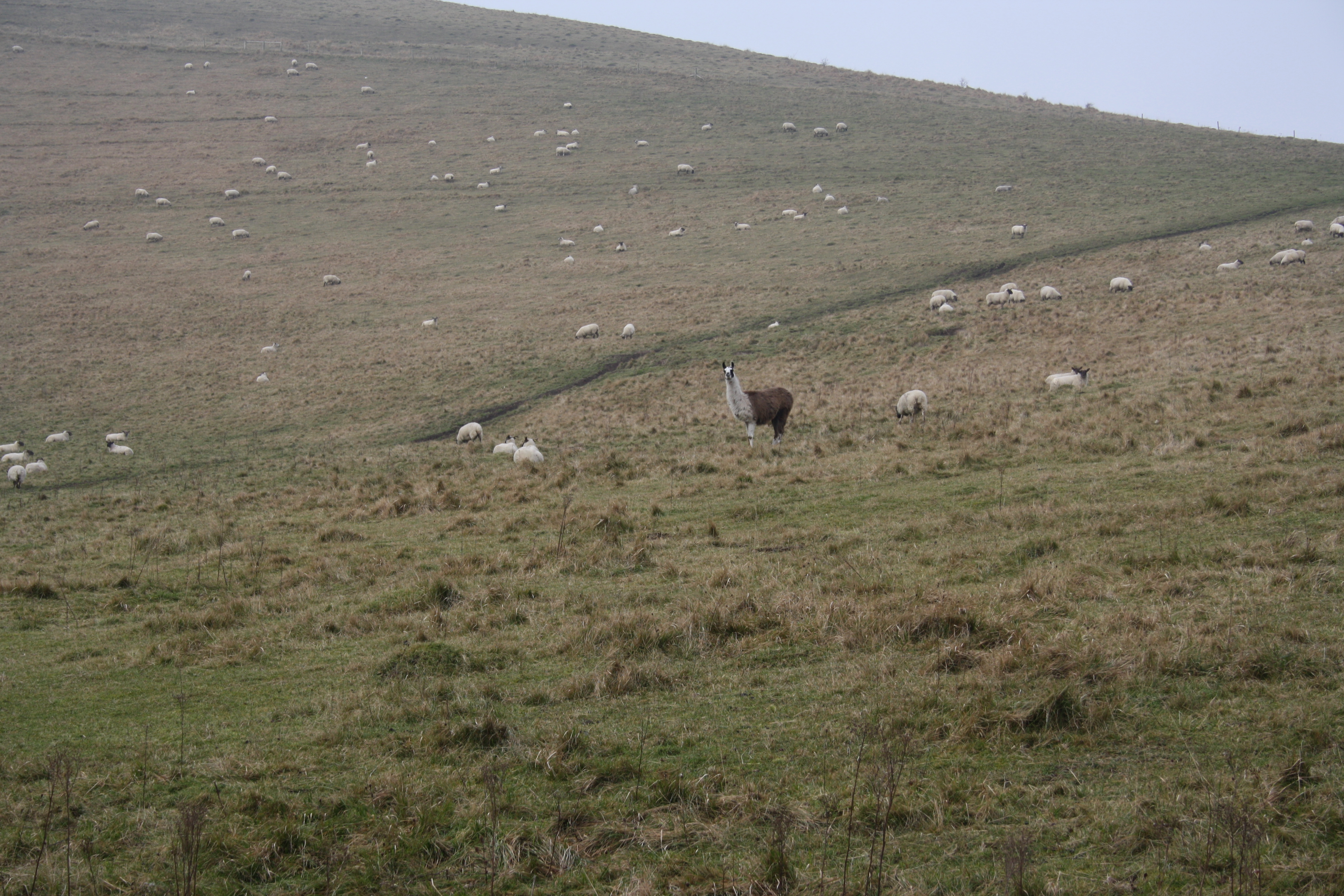 Llama guarding sheep on South Downs near Brighton, West Sussex.